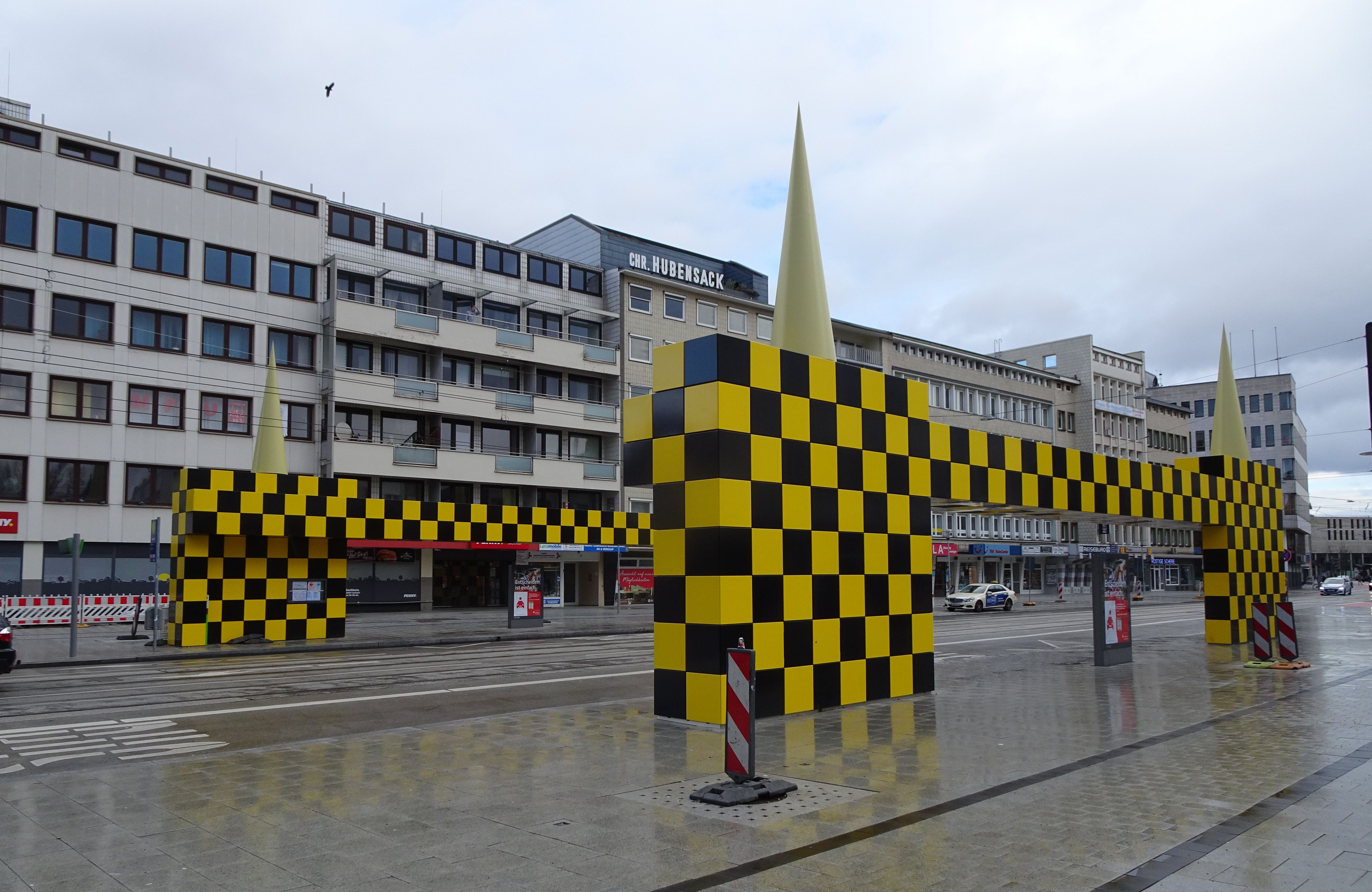 Busstop in Hannover, Germany